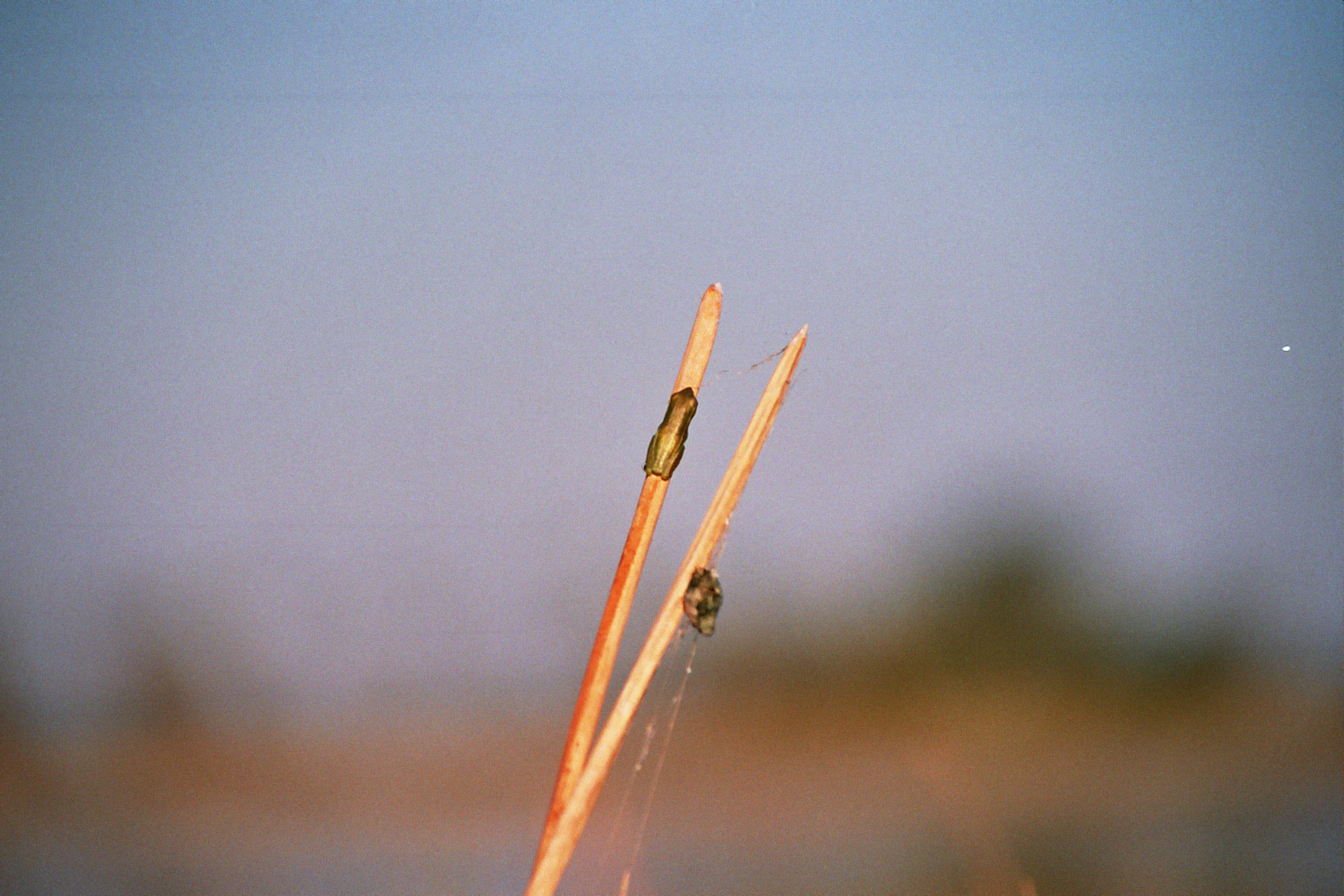 Reed frog seen while on a mokoro trip in the Delta.